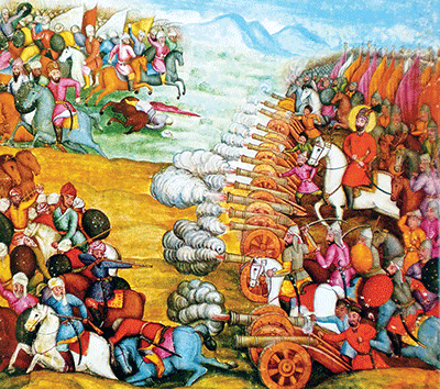 Battle of Mihmandoost - is in the public domain